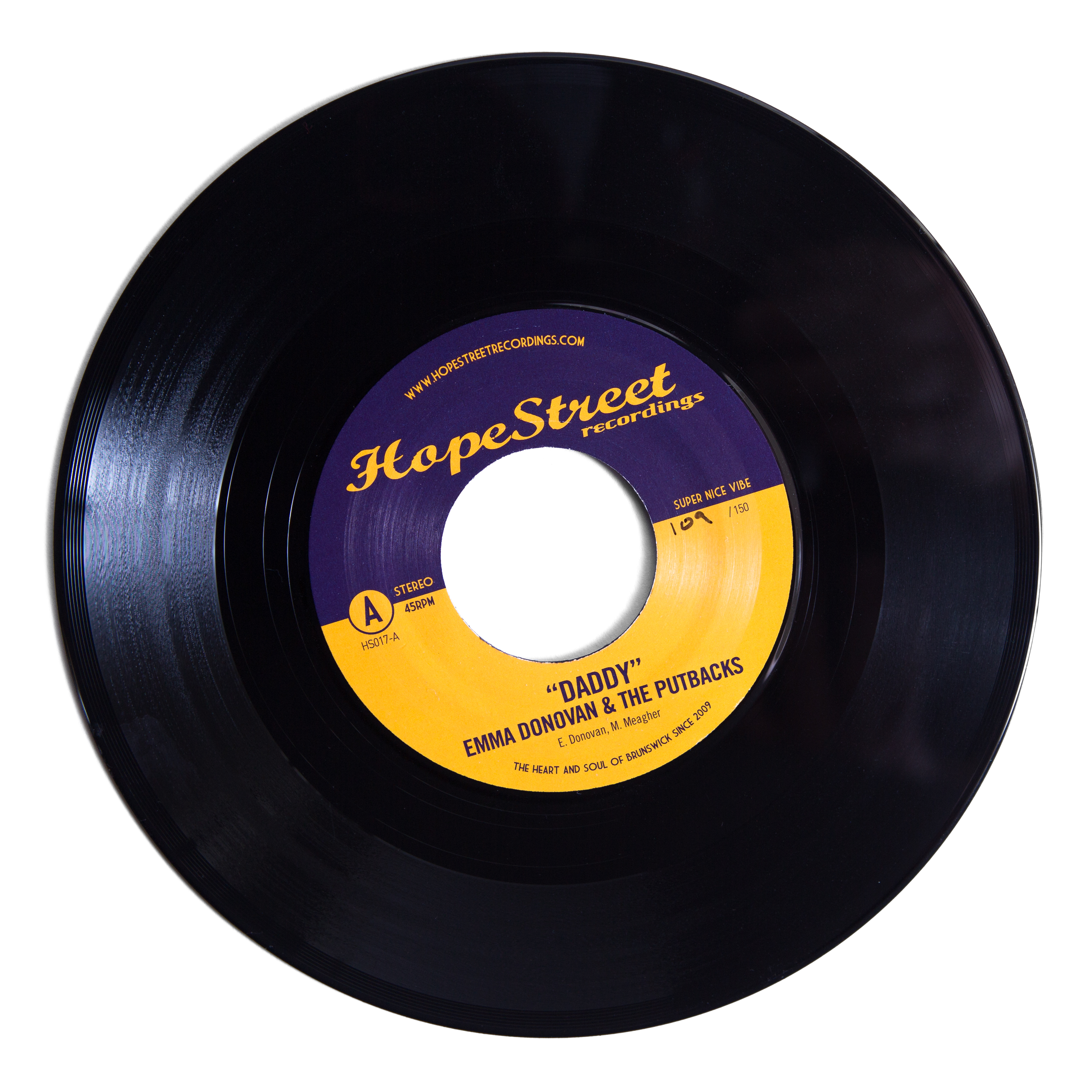 Hopestreet Records 7" single "Daddy" by Emma Donovan & The Putbacks